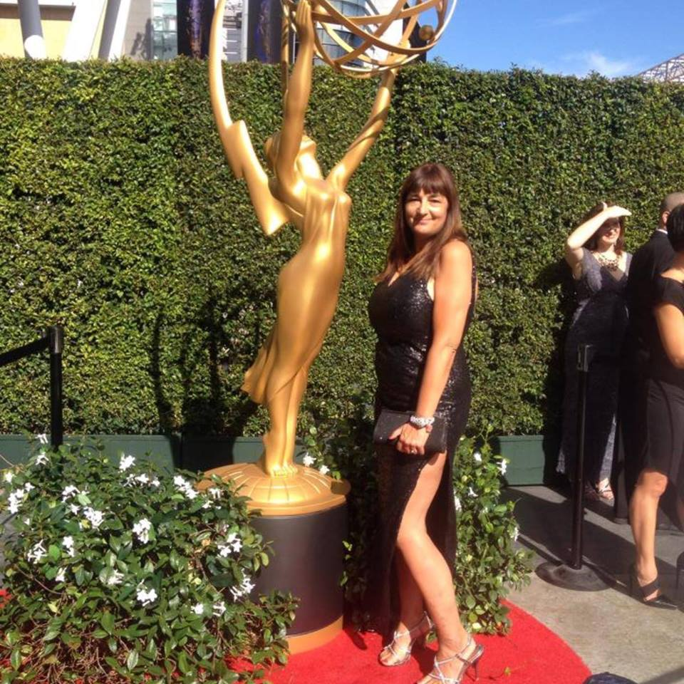 Poet Ketrin Buljevic at the Emmys 2014